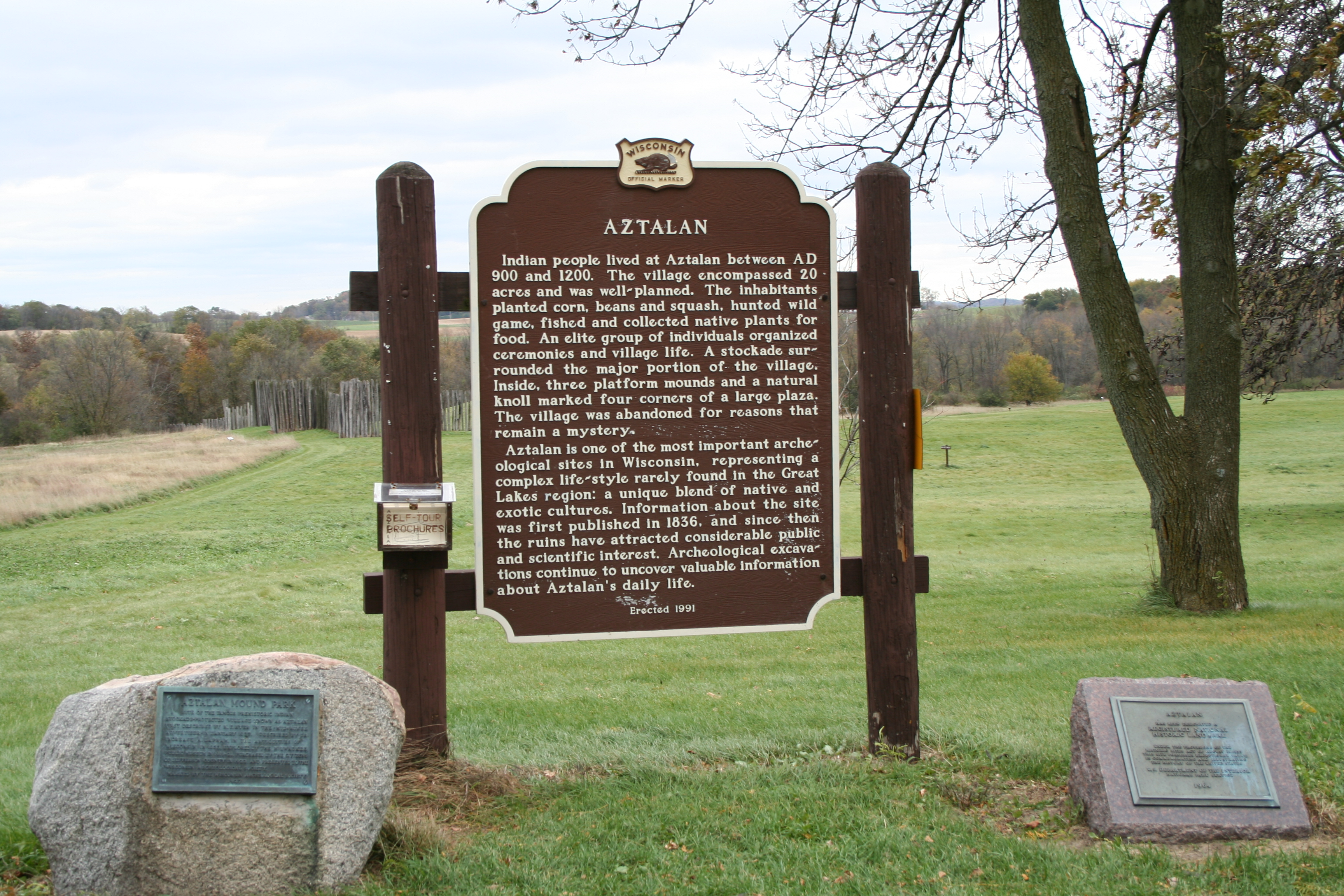 Aztalan State Park entrance sign with one of the stockades surrounding a mound in the background. Facing approximately east.